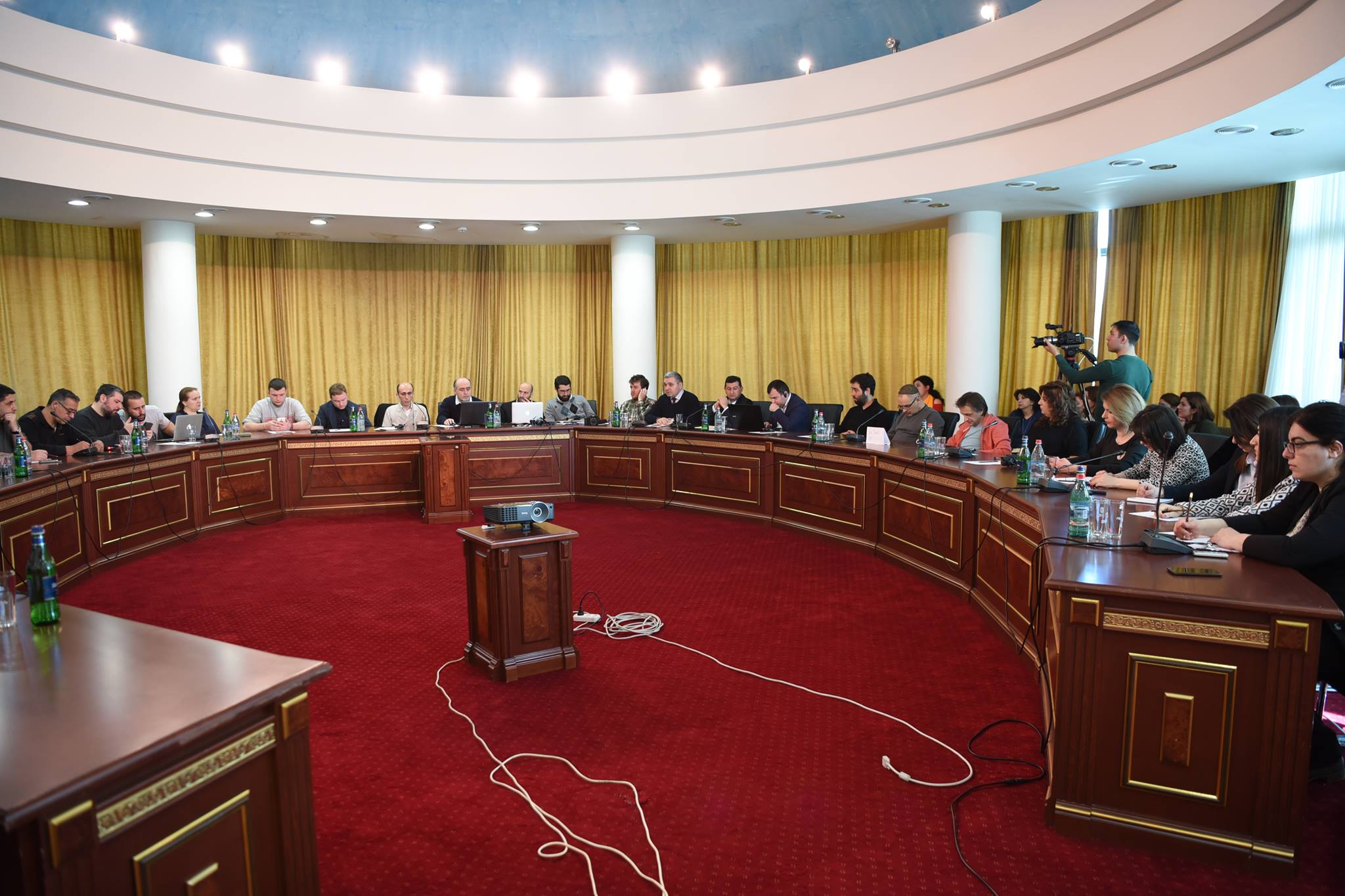 ArtsakhForum